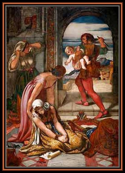 The painting,"Griselda's first Trial of Patience," depicting the kidnapping of the child as ordered by Griseldis' husband is by the English painter Charles West Cope, 1848.